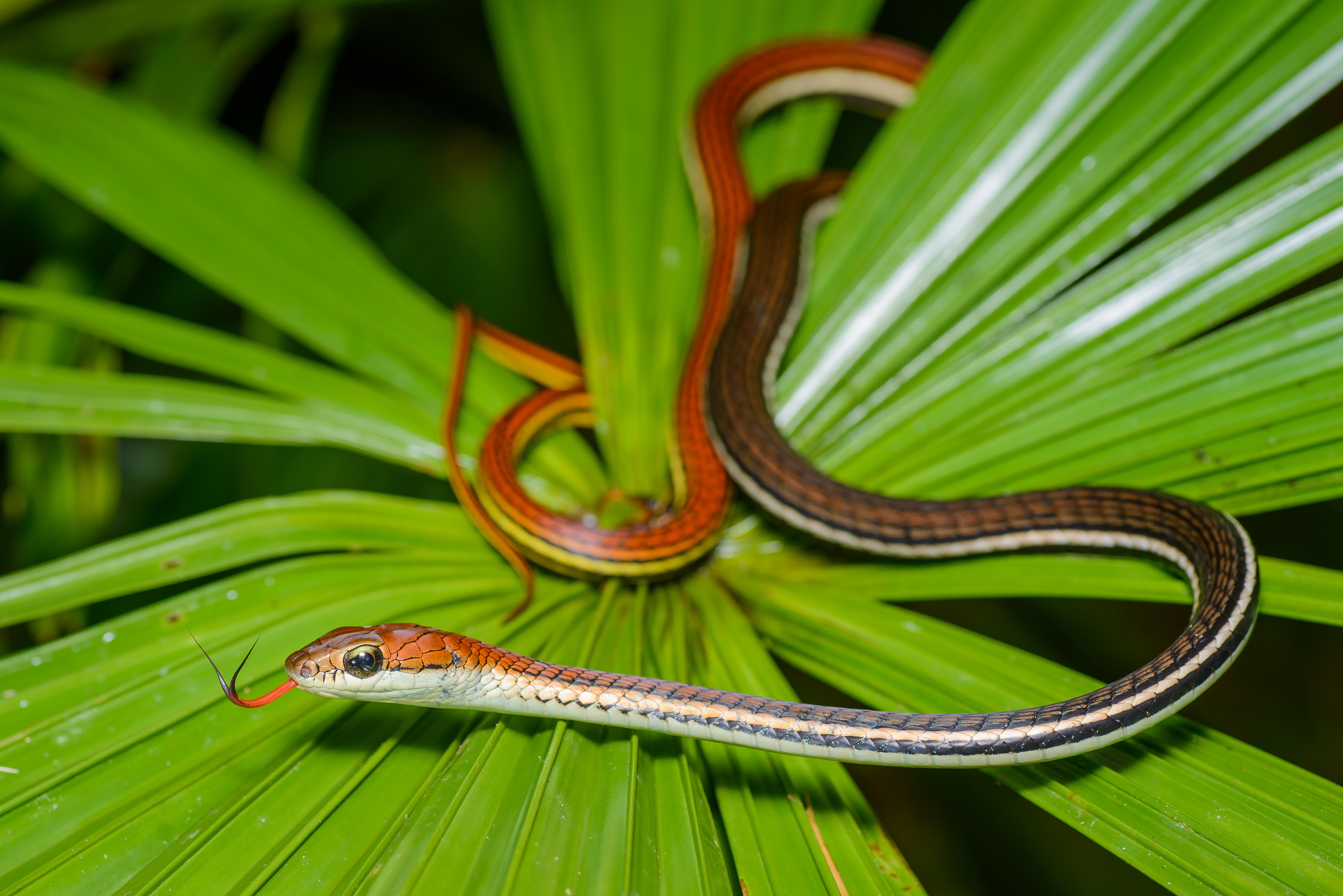 Dendrelaphis caudolineatus - Khao Sok National Park. Photo by Thai National Parks